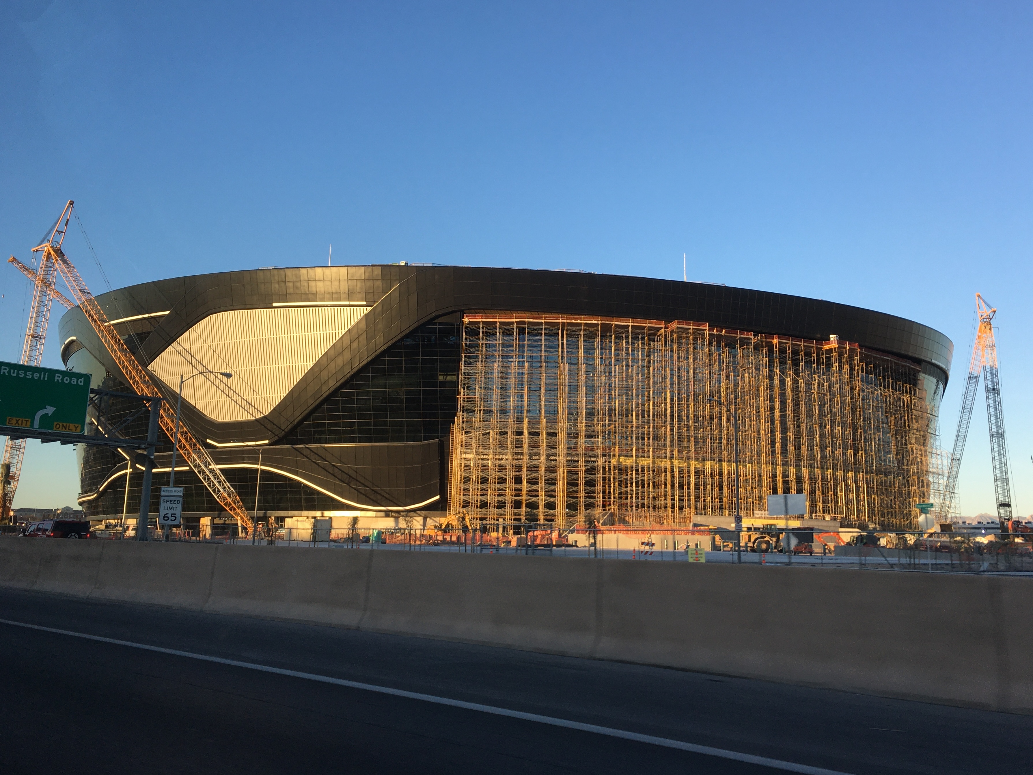 The construction of Allegiant Stadium as of March 4, 2020.